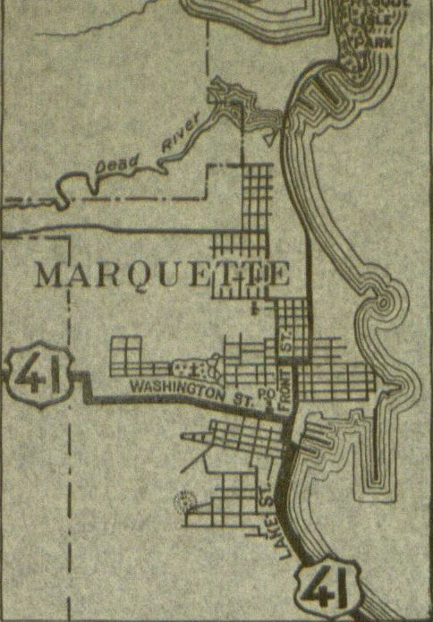 The Marquette inset from the December 1, 1927, edition of the Official Highway Service Map